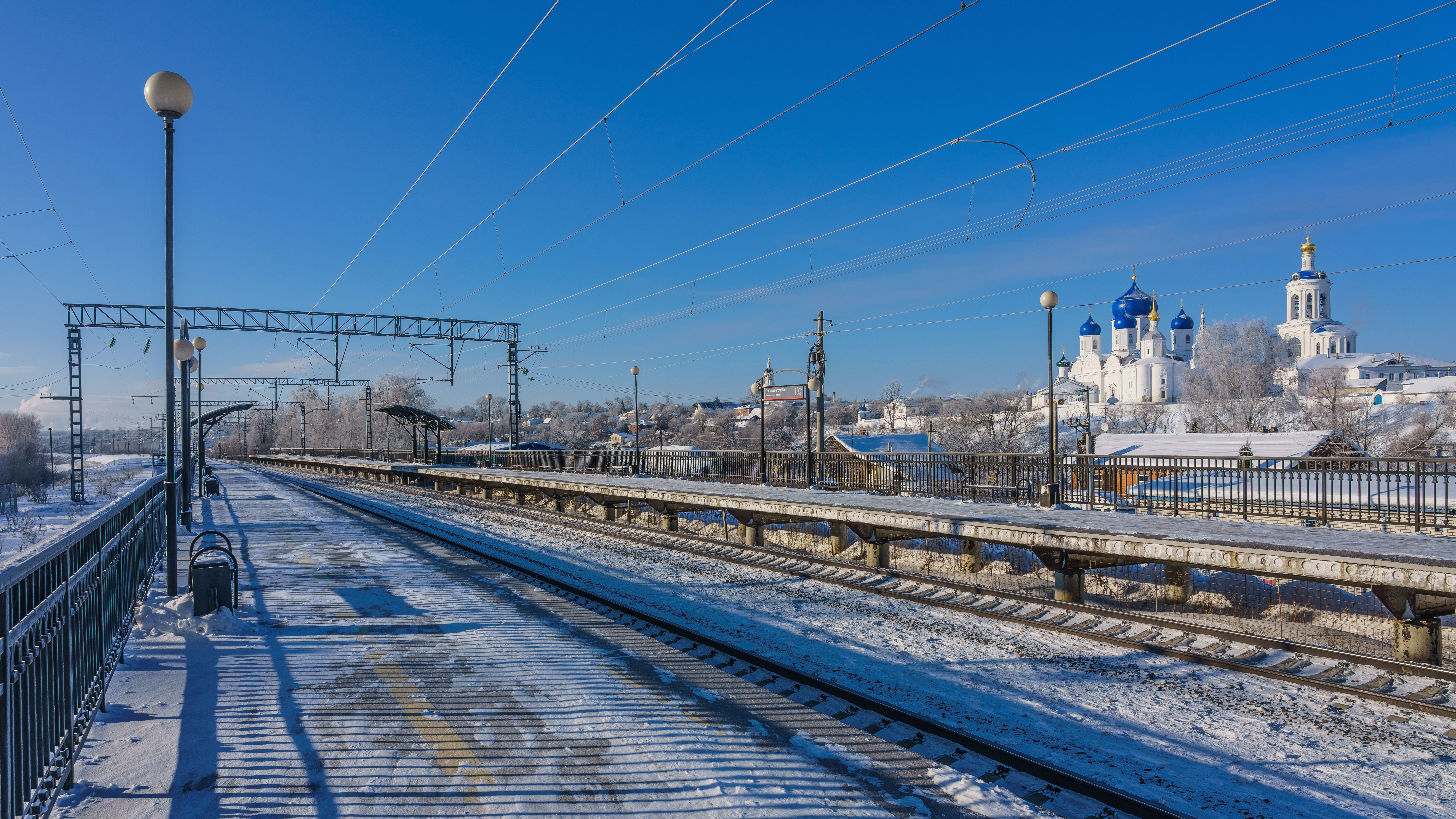 Railway station in Bogolyubovo near Vladimir, Russia